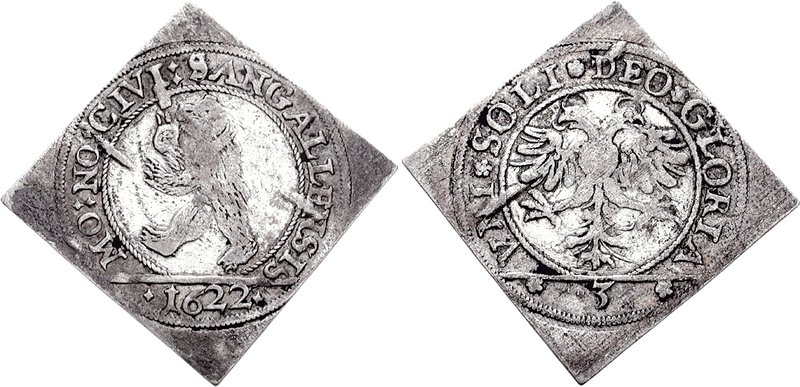 Switzerland, St. Gallen. AR 1/2 Dicken (3 Batzen) Klippe (3.78 g, 12h). Dated 1622. MO : NO : CIVI : SANGALLENSIS, Bear, wearing collar, walking left on hind legs within pearl border; • 1622 • in exergue VNI (rosette) SOLI (rosette) DEO (rosette) GLORIA, double eagle; (rosette) 3(rosette) below. Divo & Tobler 1405g; HMZ 732; KM 56. VF, some adjustment marks.